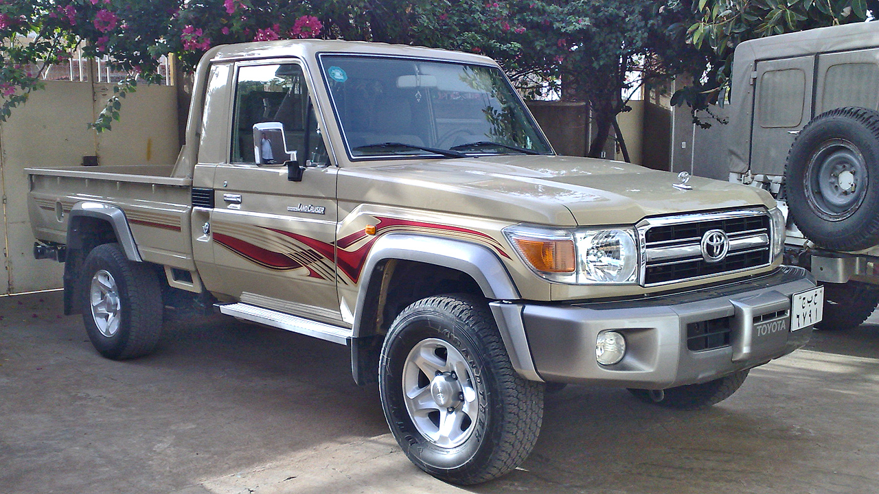 2007 Landcruiser 70 with facelift